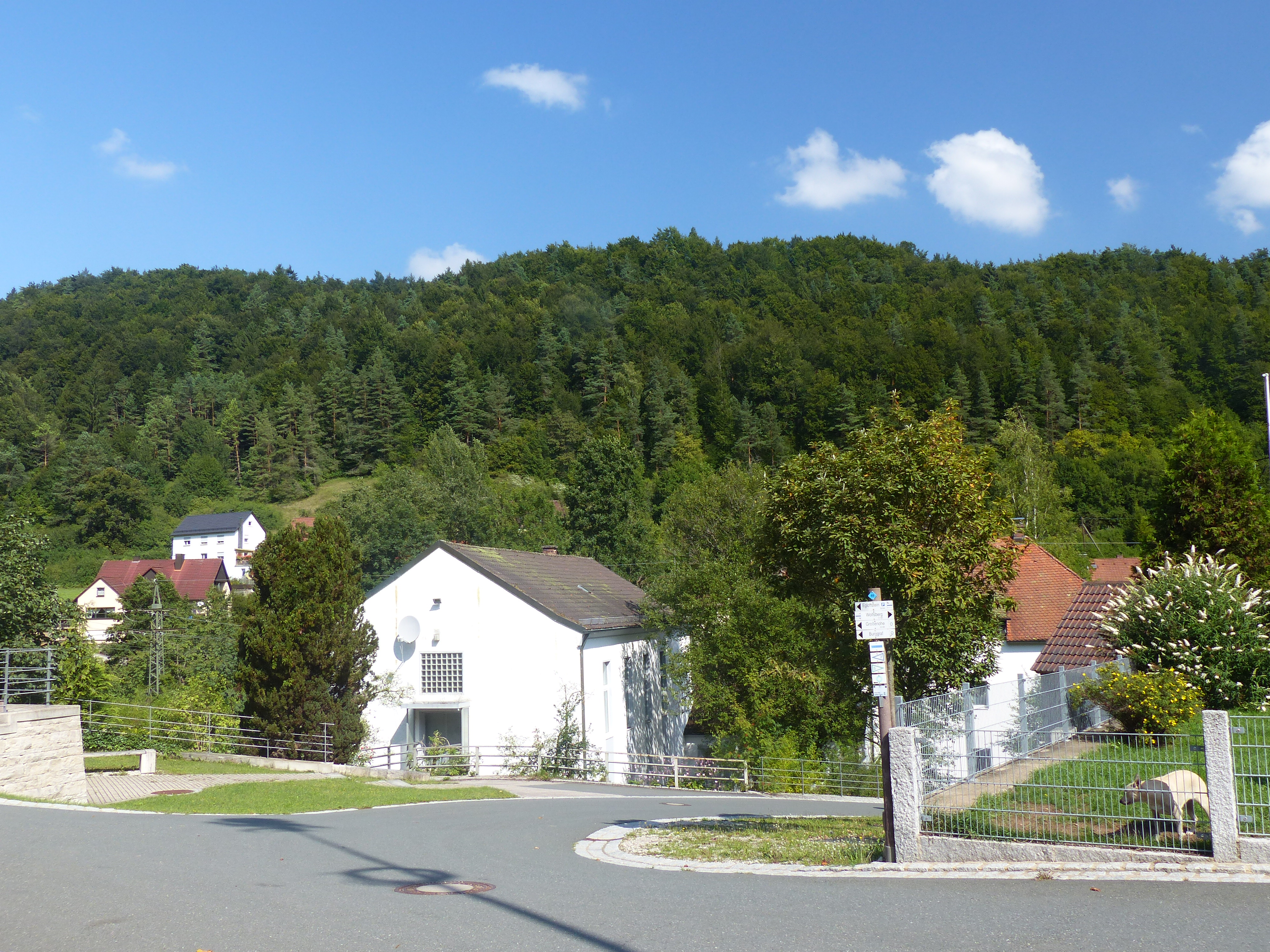 A former Electrical substation in Untertrubach, a district of the municipality of Obertrubach.